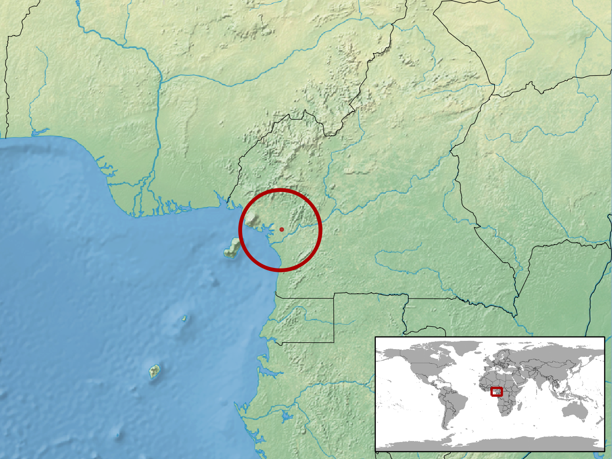 geographic distribution of Cynisca schaeferi (Native: Cameroon)